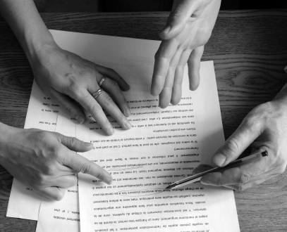 Discussion about the text